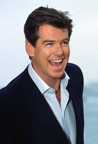 Brosnan Pierce at Cannes in 2002.